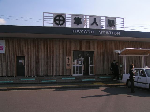 Hayato Station